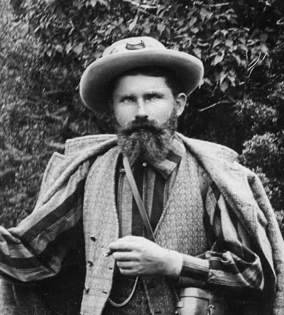 Matthias Zurbriggen in the Tasman Valley preparing for climb of Mt Sefton or Mt Tasman.